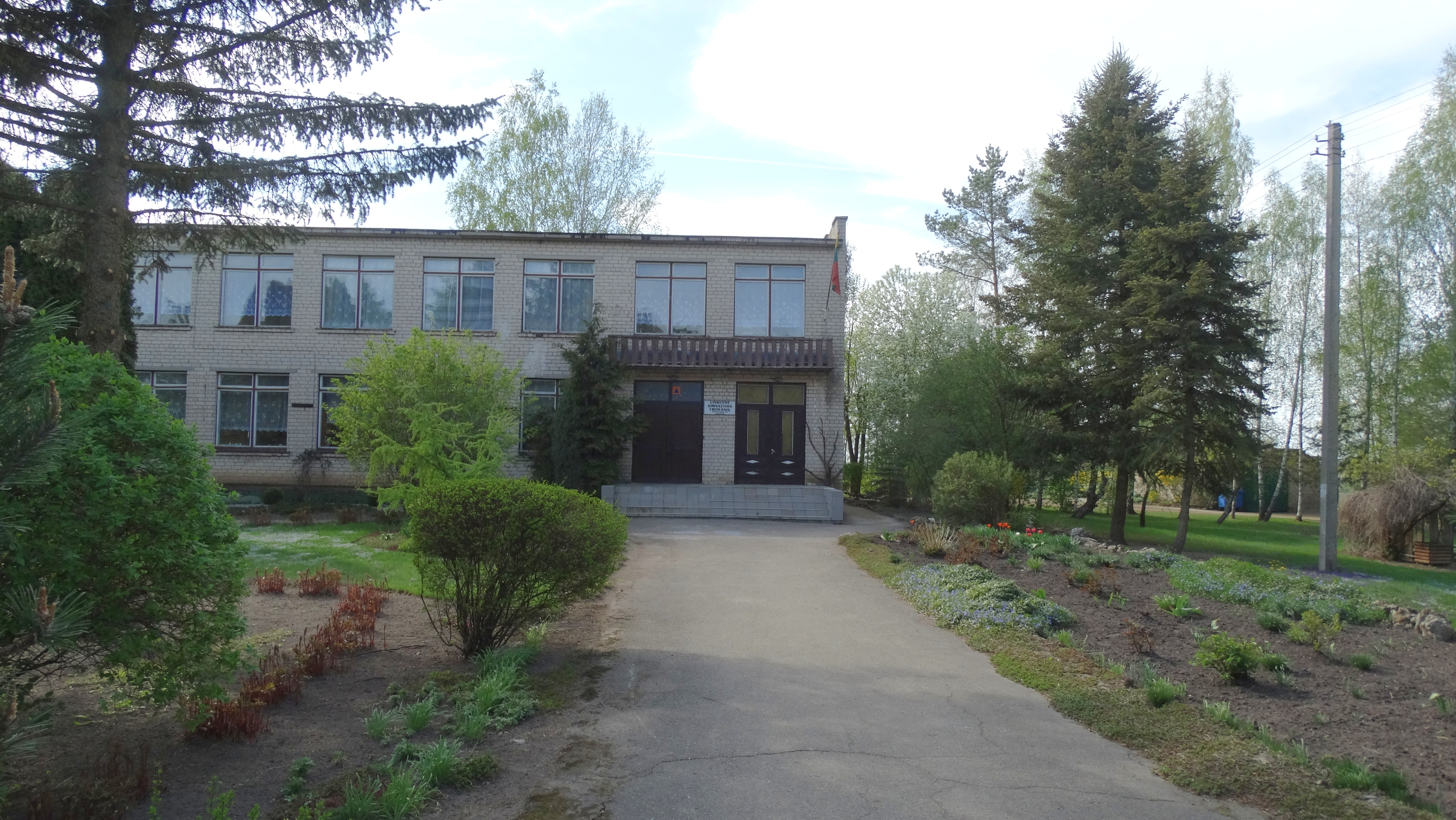 Triškoniai, school, Pakruojis district, Lithuania